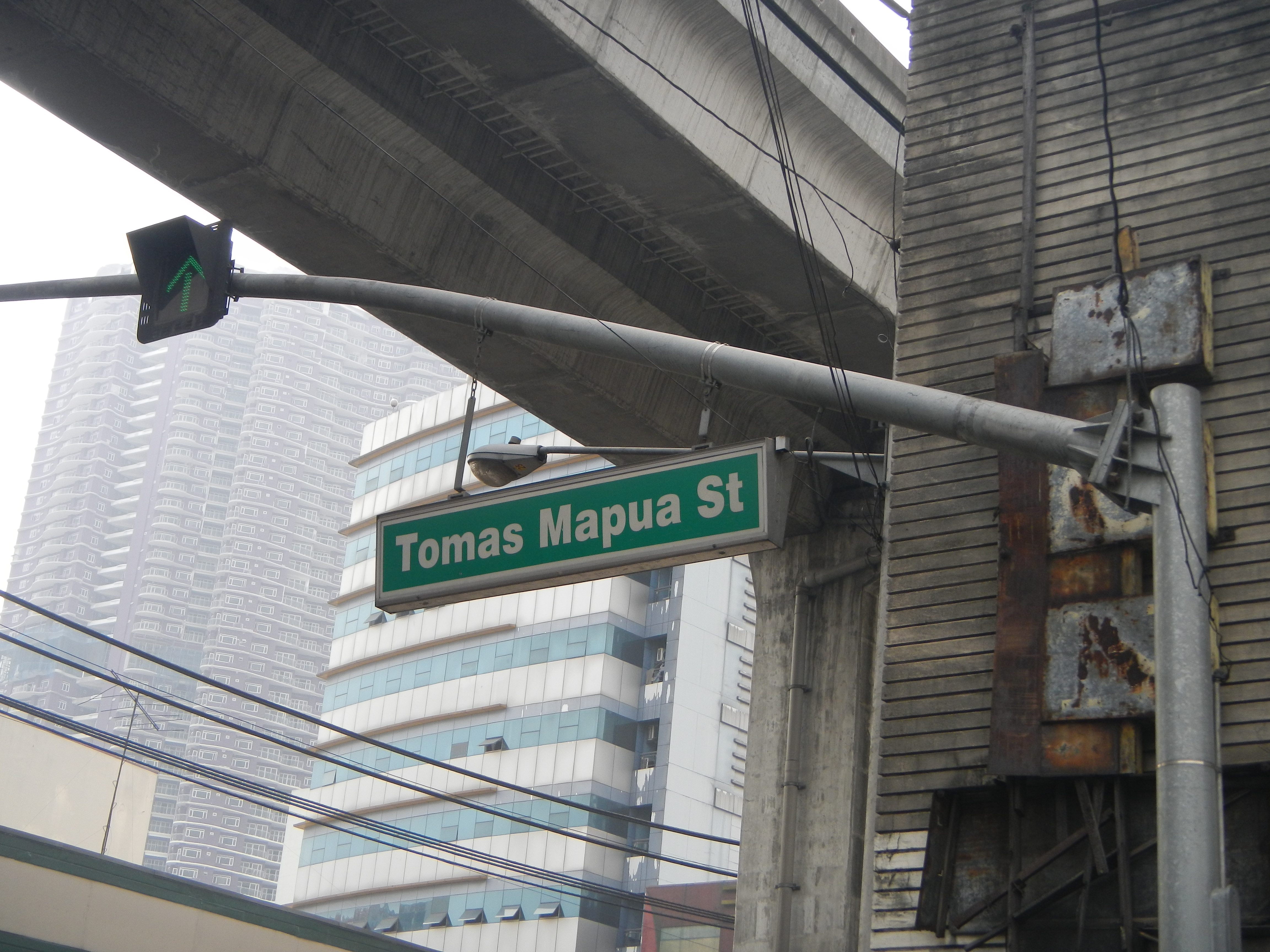 Upload Wizard photos of - a) the Plaridel Irrigation Bridge and Plaridel Irrigation Canal and Dike At Banga 1st along Pan-Philippine Highway or Daang Maharlika in Plaridel, Bulacan [1], b) Tomás Mapúa[2] Street, Santa Cruz, Manila[3] (Santa Cruz District, Rizal Avenue to Pasig River) Misericordia Street in Sta. Cruz, Manila was renamed to Tomas Mapua Street in his honor, Hap Chan Tea House [4] and c) Ongpin Street (Manila Chinatown) List of roads in Metro Manila[5] - in preparation for the Chinese New Year festivity, Chinatown is in full blast with all the wares and goods on sale, including food.